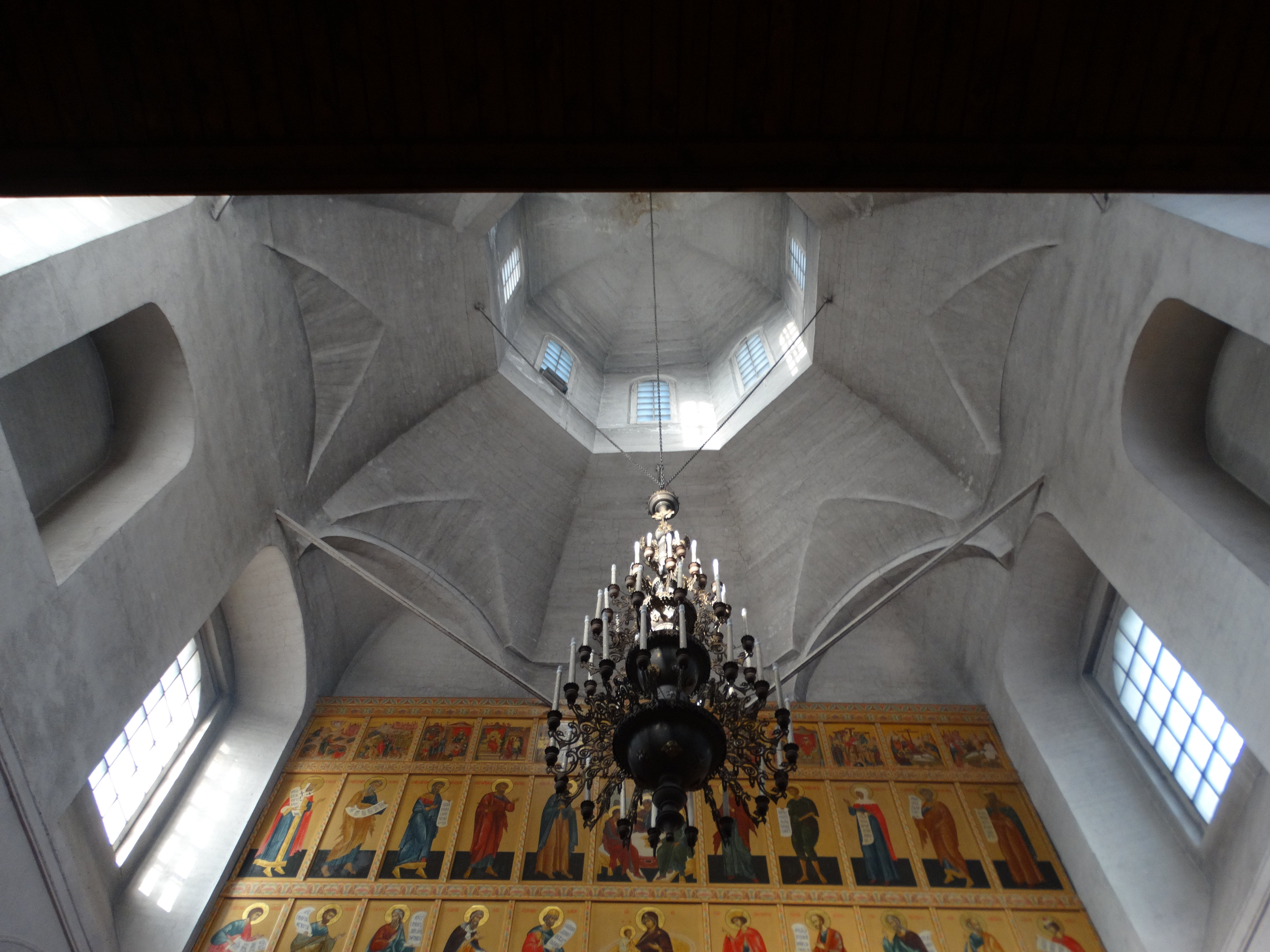 Valday, Inside the Troitsky church